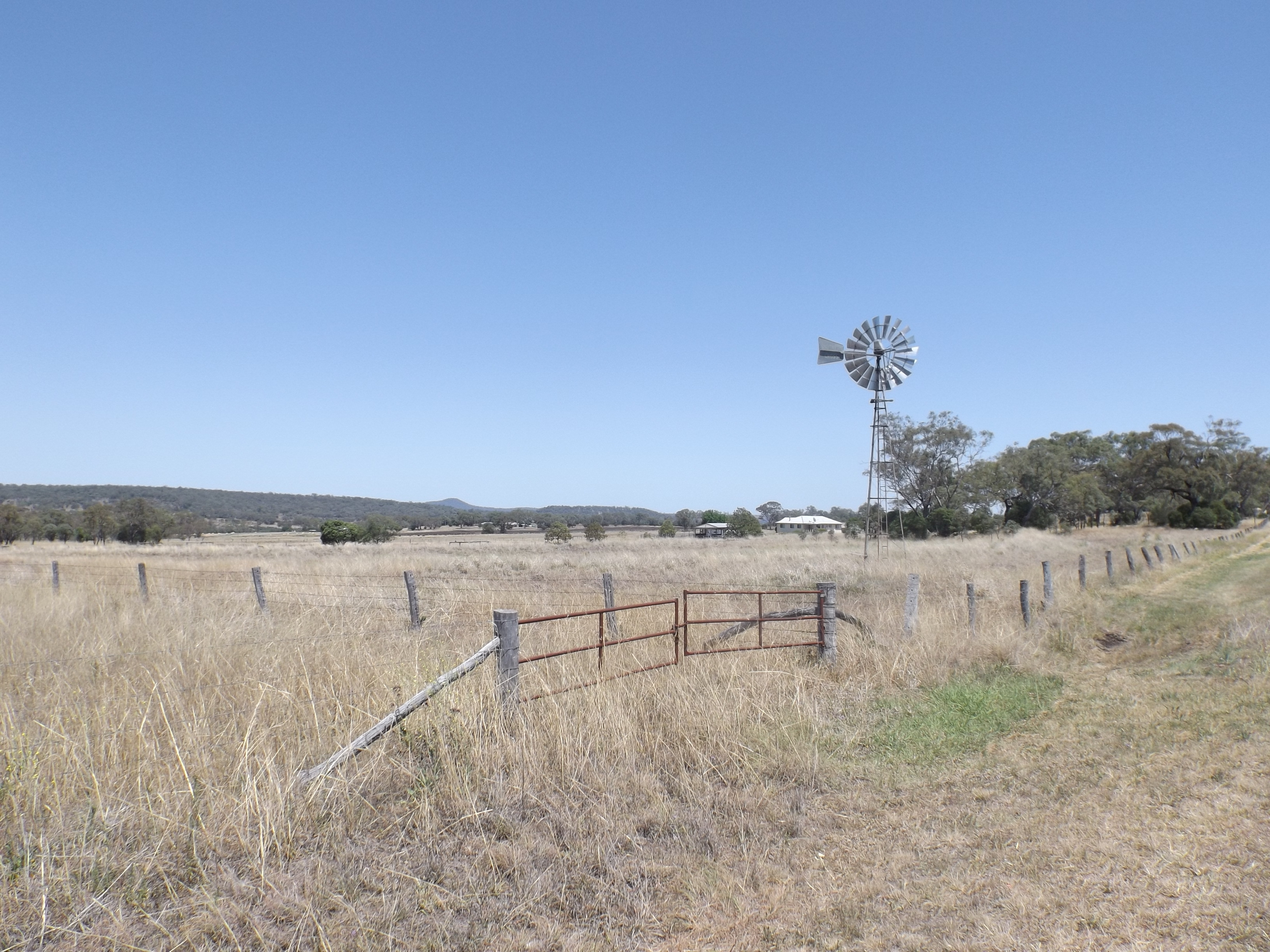 Photo of fields and windmill at Linthorpe, Queensland, Australia.